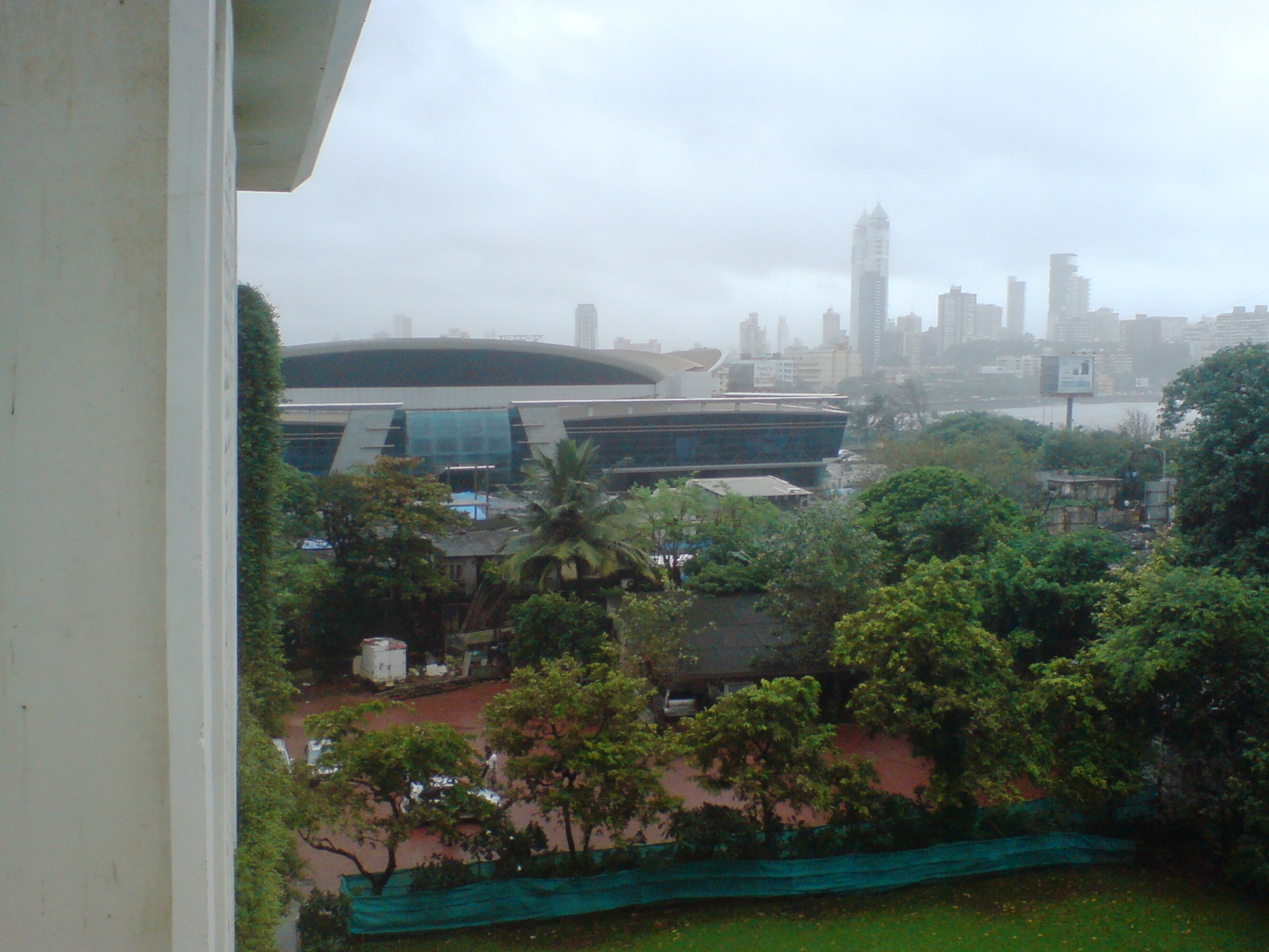 Newly recontructed stadium at NSCI Mumbai (Indoor Complex) as seen from Nehru Centre